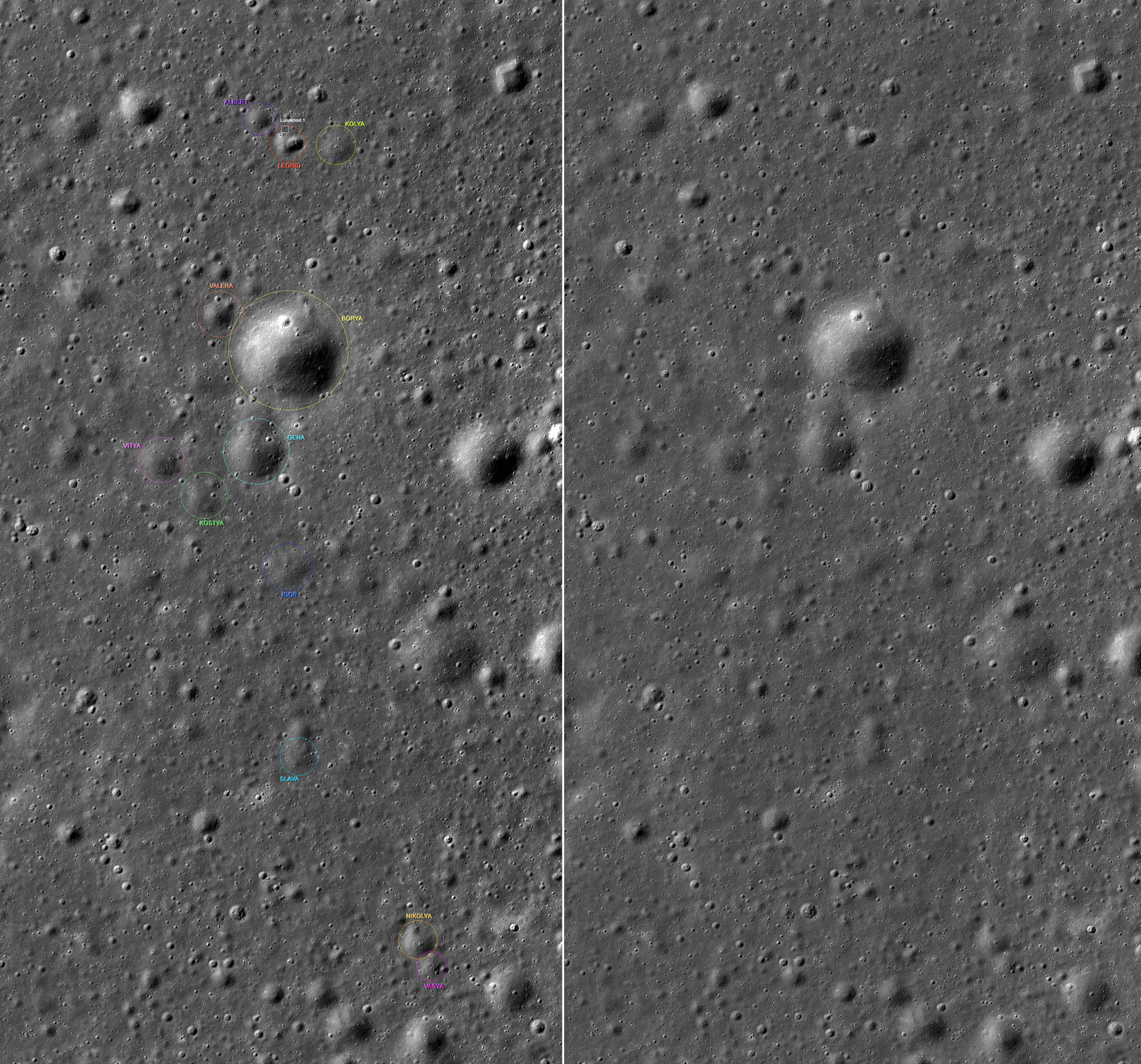 Landing side of Luna-17 and traversing path of Lunokhod-1. Photo of associated small craters Vasya, Nikolya, Slava, Igor, Kostya, Vitya, Gena, Borya, Valera, Kolya, Leonid, Albert